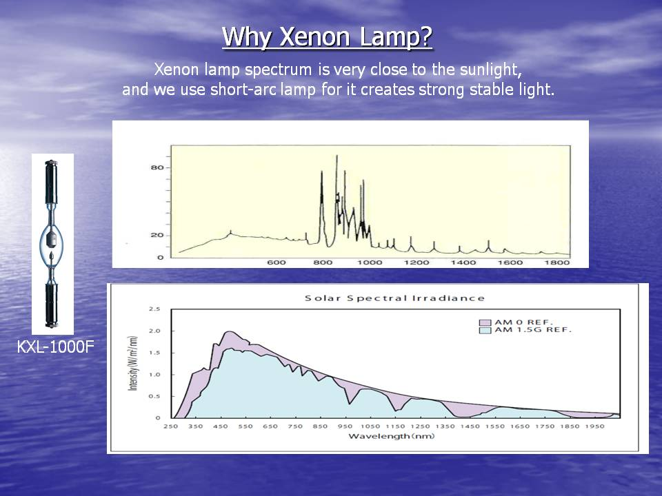 Spectrum information from a Class AAA 1 Lamp Solar Simulator by using a Xenon Lamp.